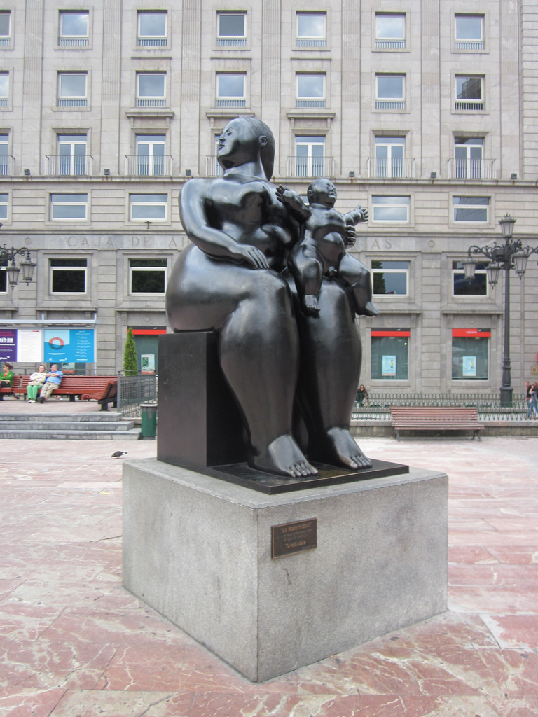 Sculpture "La Maternidad" by Fernando Botero, located in Plaza de la Escadalera, Oviedo, Spain.